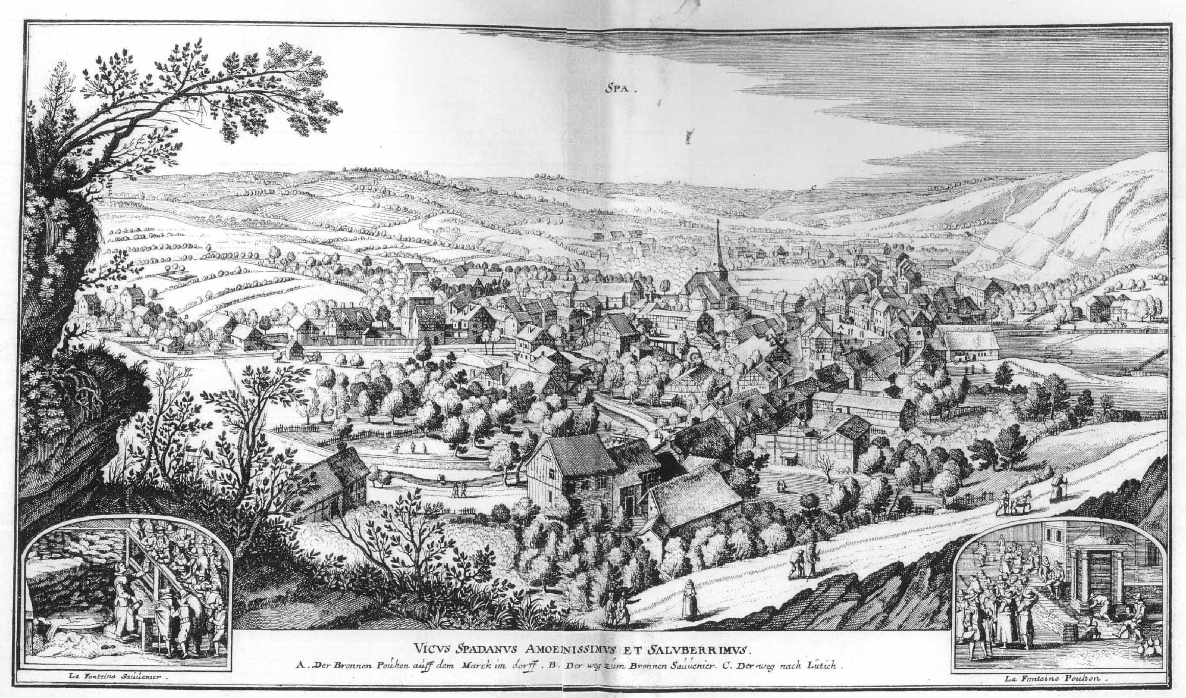 This is a scan of the historical document